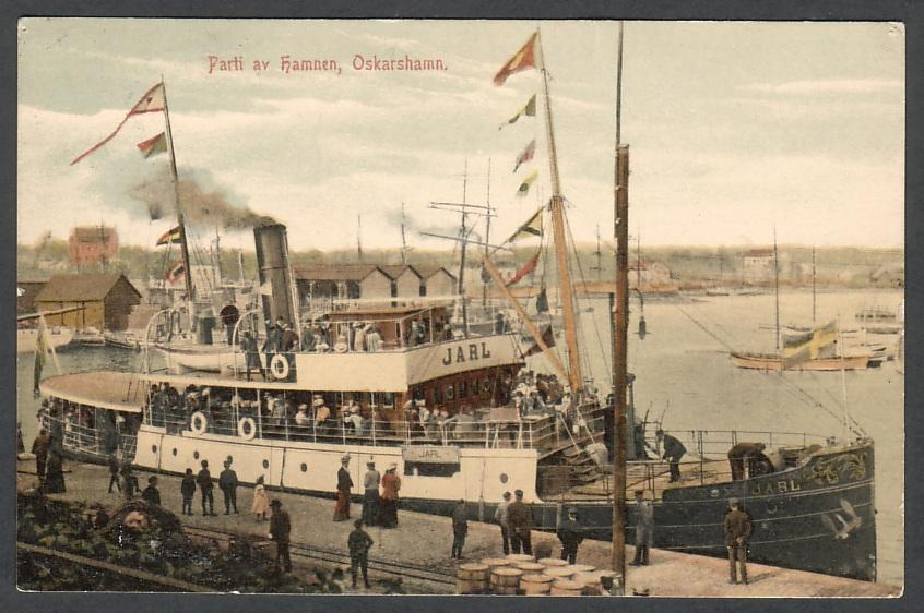 S/S Jarl, bulit at Oskarshamn, Sweden 1907.